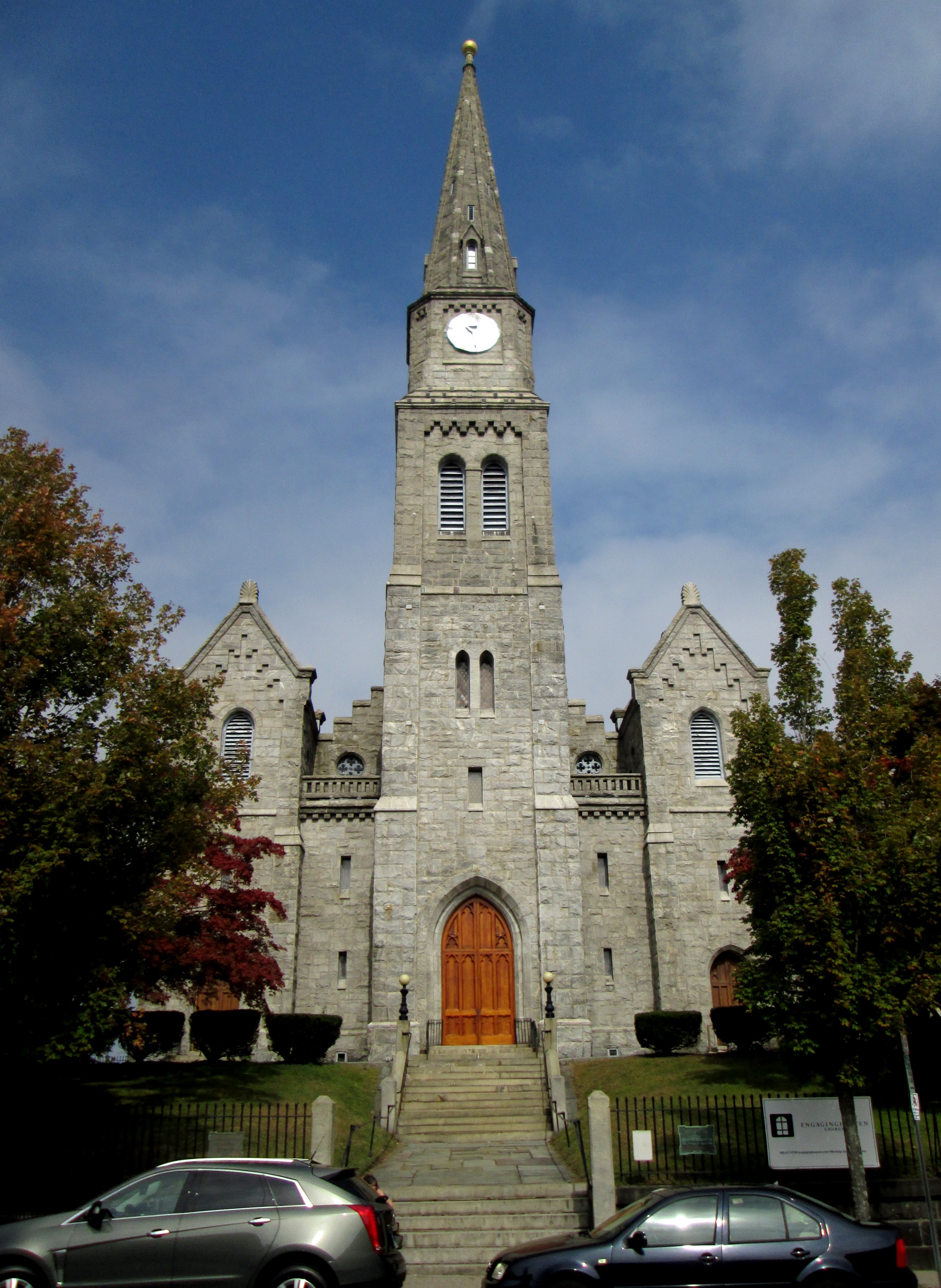 The First Church of Christ (Congregational), on the corner of State and Union Streets in New London, Connecticut, was built in 1850 and was designed by Leopold Eidlitz in the Gothic Revival style. The congregation dates from the mid-1600s. The church is part of the Downtown New London Historic District. (Sources: [1], [2], and [3])